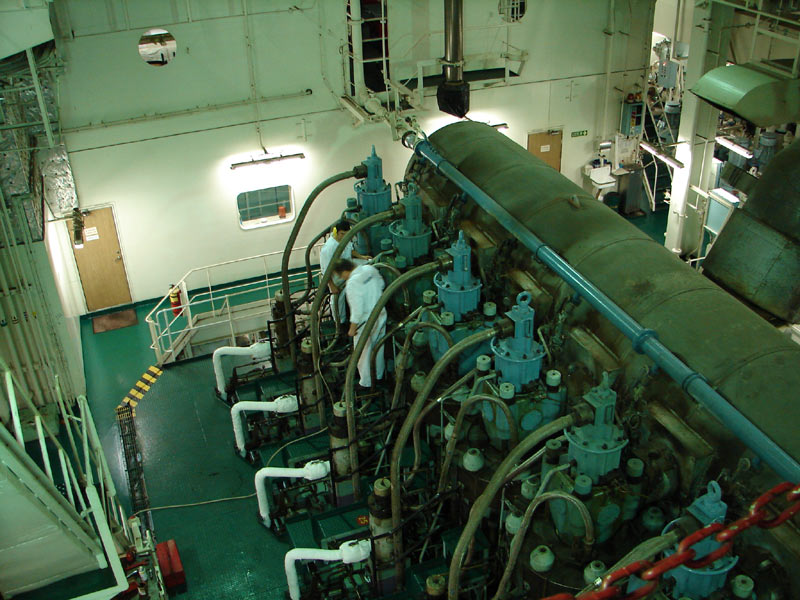 Main engine of the VLCC Algarve : Man B&W, 25 800 kW, 7 cylindres